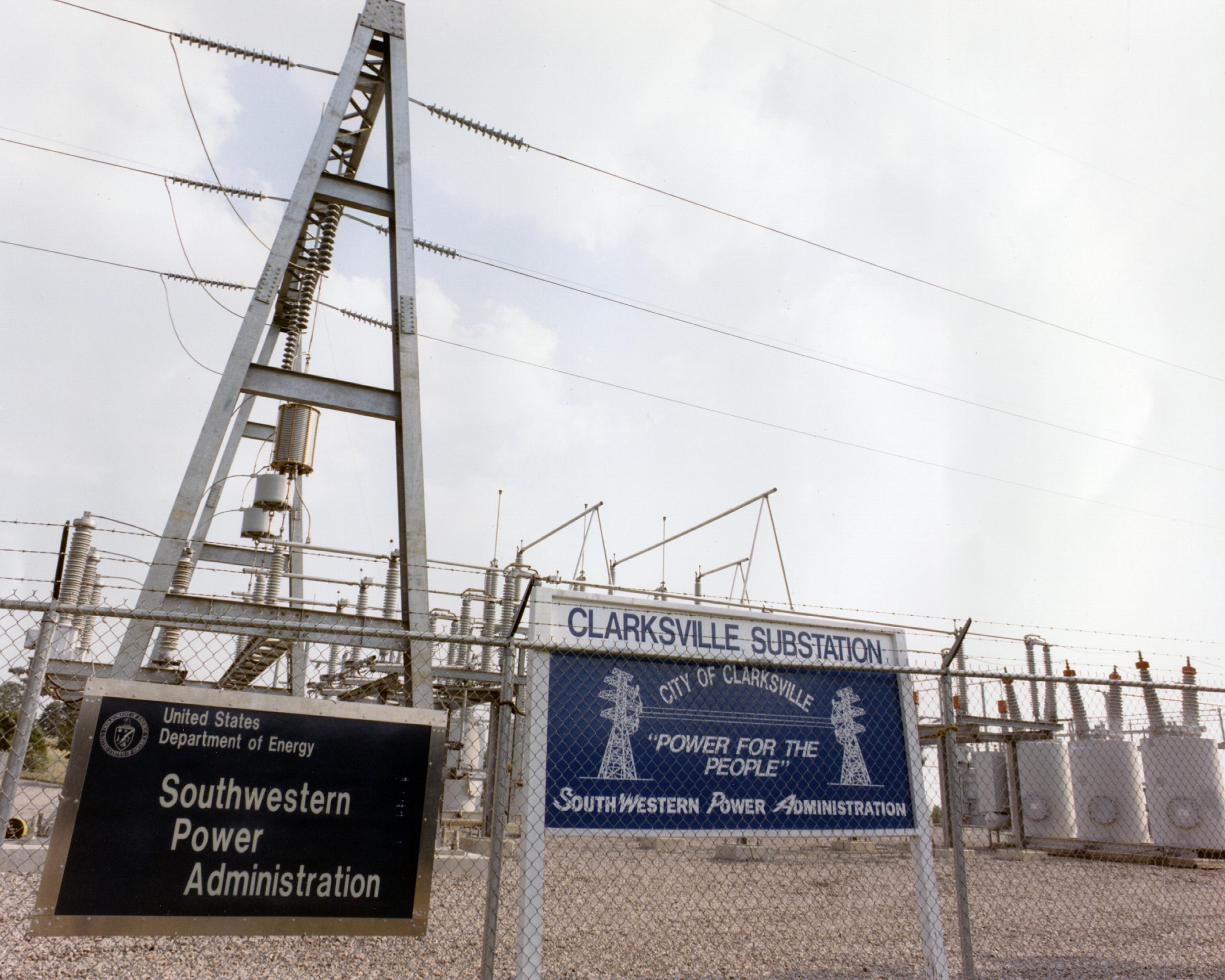 CLARKESVILLE, ARKANSAS SUB-STATION. THE SOUTHWESTERN FEDERAL POWER SYSTEM ENCOMPASSES THE OPERATION OF 23 HYDROELECTRIC POWER PLANTS BY THE US ARMY CORPS OF ENGINEERS AND THE MARKETING OF POWER AND ENERGY FROM THOSE PLANTS BY SOUTHWESTERN POWER ADMINISTRATION OF THE US DEPARTMENT OF ENERGY. TO INTEGRATE THE OPERATION OF THESE HYDROELECTRIC GENERATING PLANTS AND TO TRANSMIT POWER FROM THE DAMS TO ITS CUSTOMERS, SOUTHWESTERN MAINTAINS 1,380 MILES OF HIGH-VOLTAGE TRANSMISSION LINES. THE SOUTHWESTERN POWER SERVICE REGION ENCOMPASSES ARKANSAS, KANSAS, LOUISIANA, MISSOURI, OKLAHOMA AND TEXAS. For more information or additional images, please contact 202-586-5251.